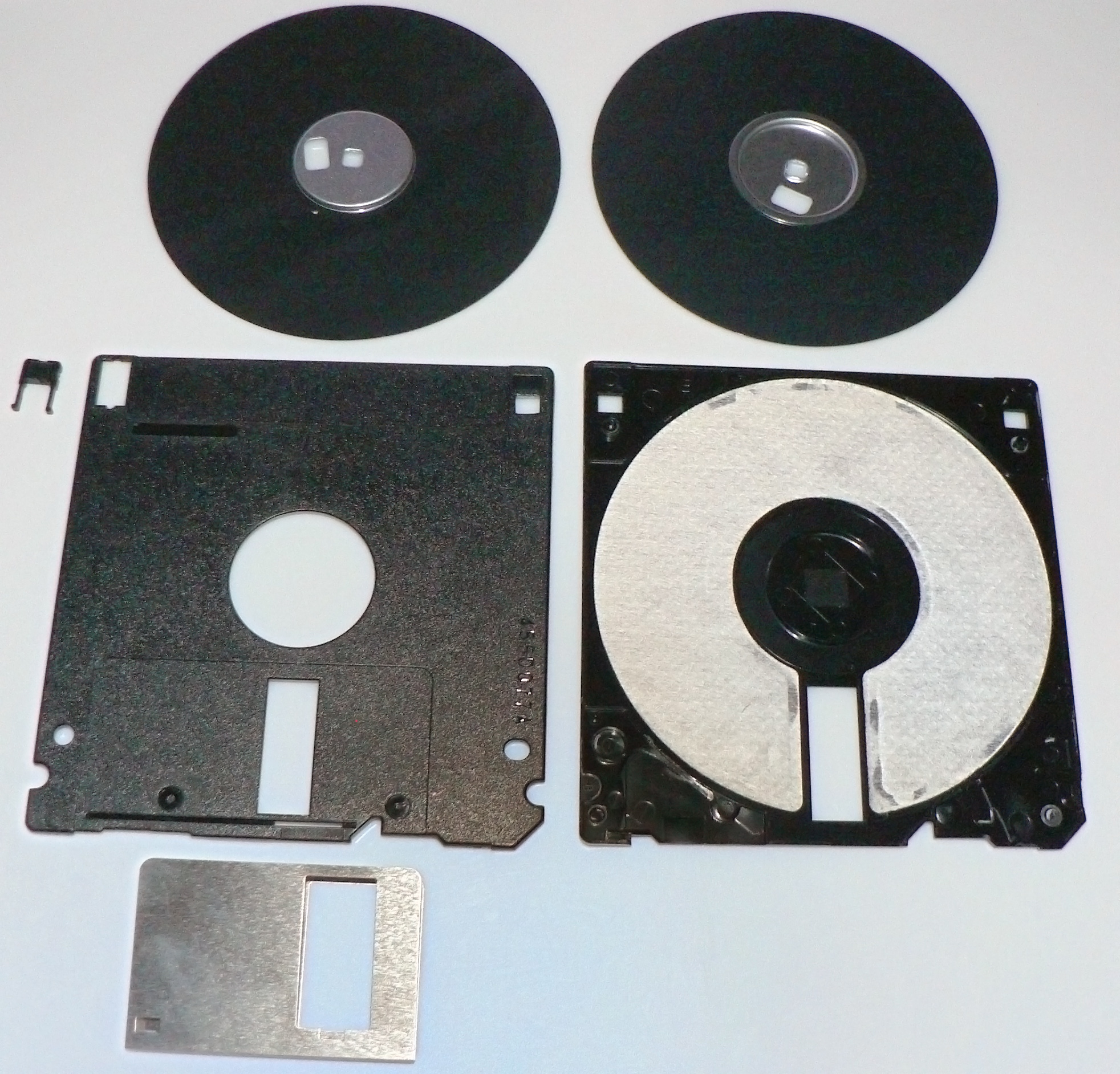 3½-inch floppy disk